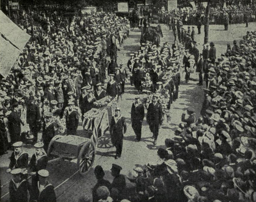 The funeral procession of John Travers Cornwell VC at Manor Park, London East on 29 July 1916